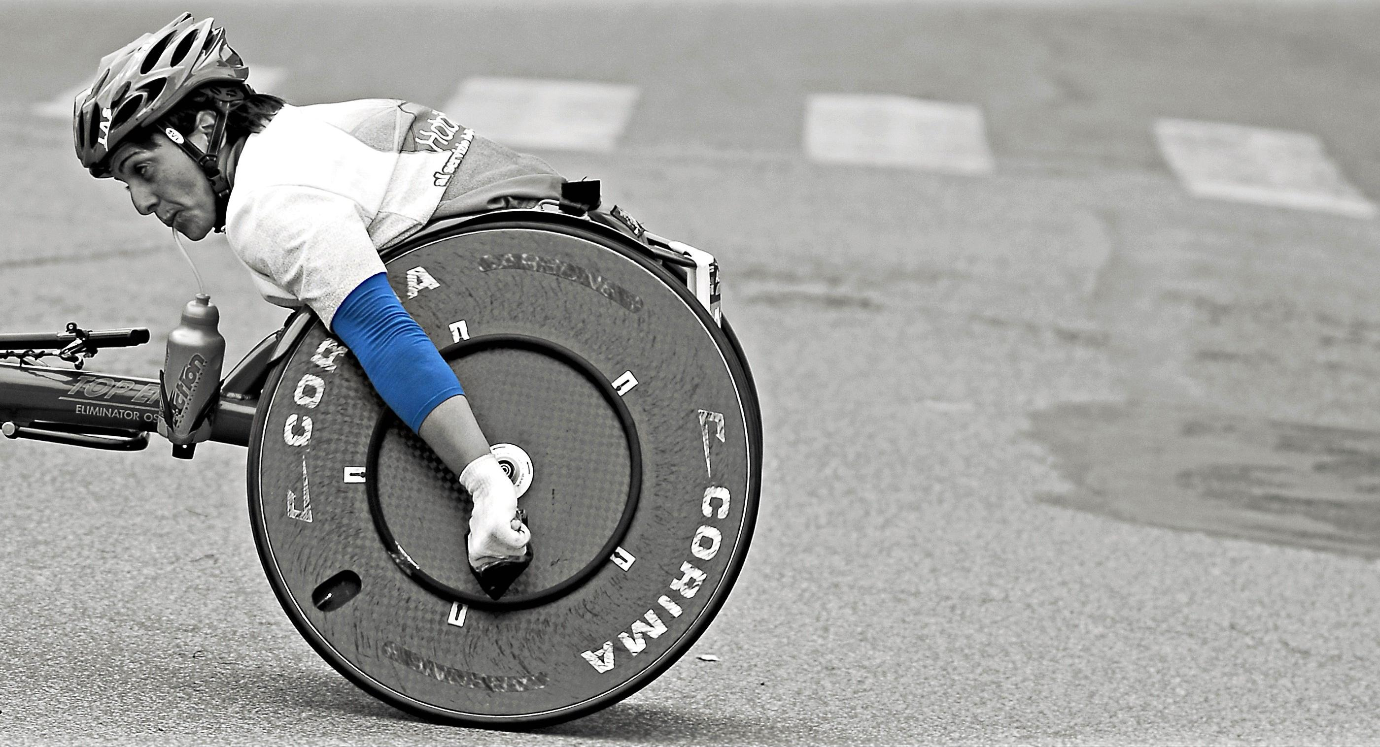 Disabled sports